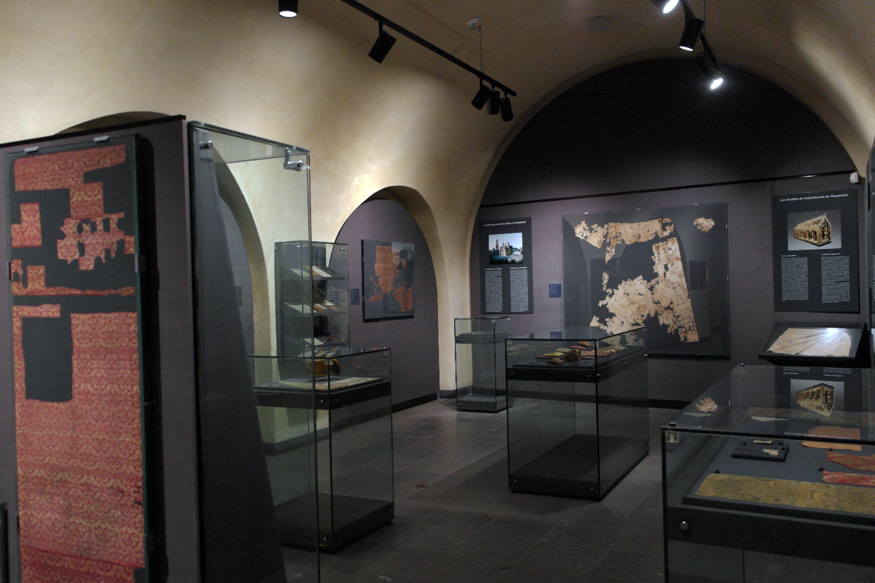 Maastricht, the Netherlands, Treasury of the Basilica of Saint Servatius. View of the ancient textiles department in the treasury.